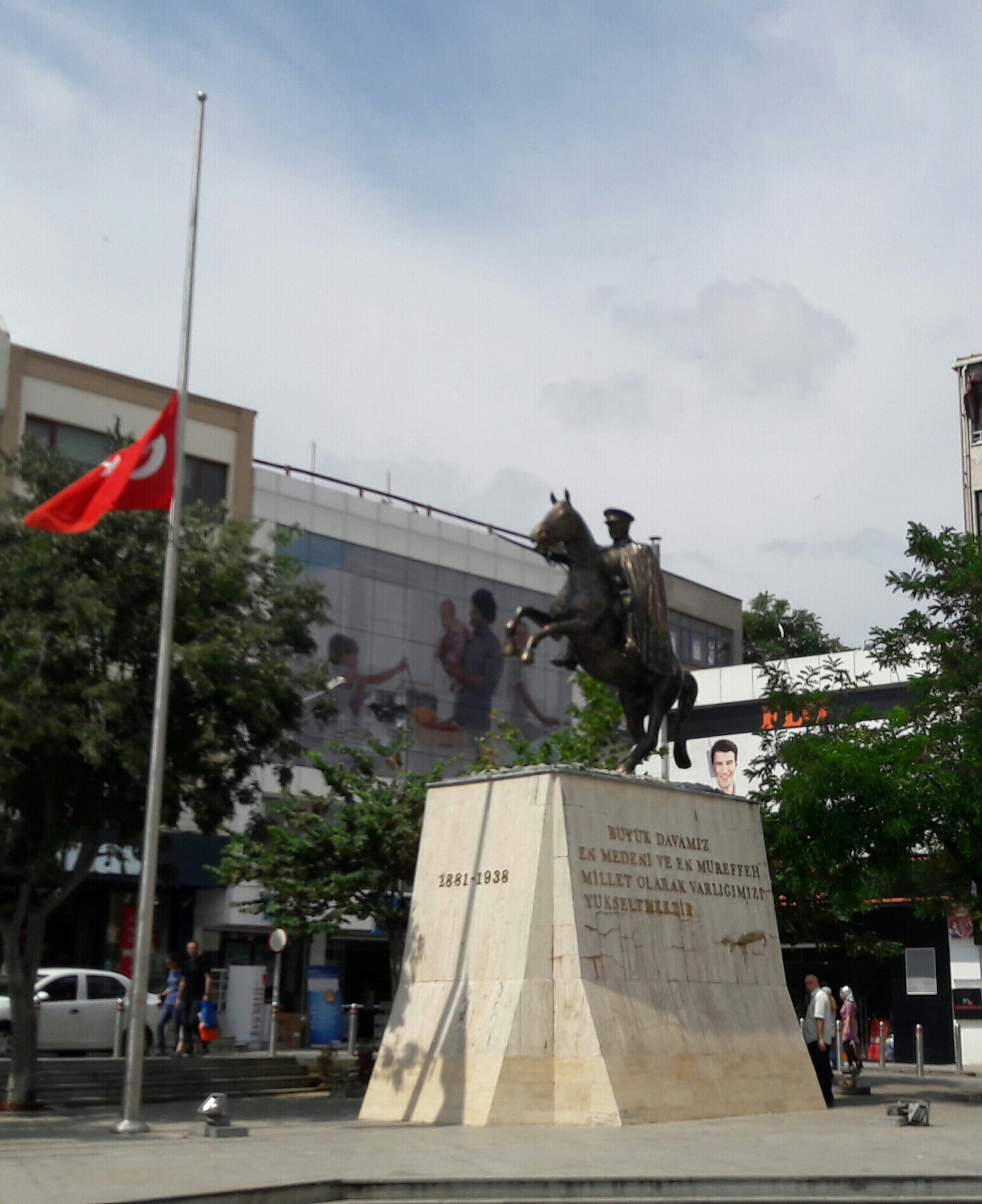 National day of mourning 2016 Istanbul Ataturk Airport bombings and attacks